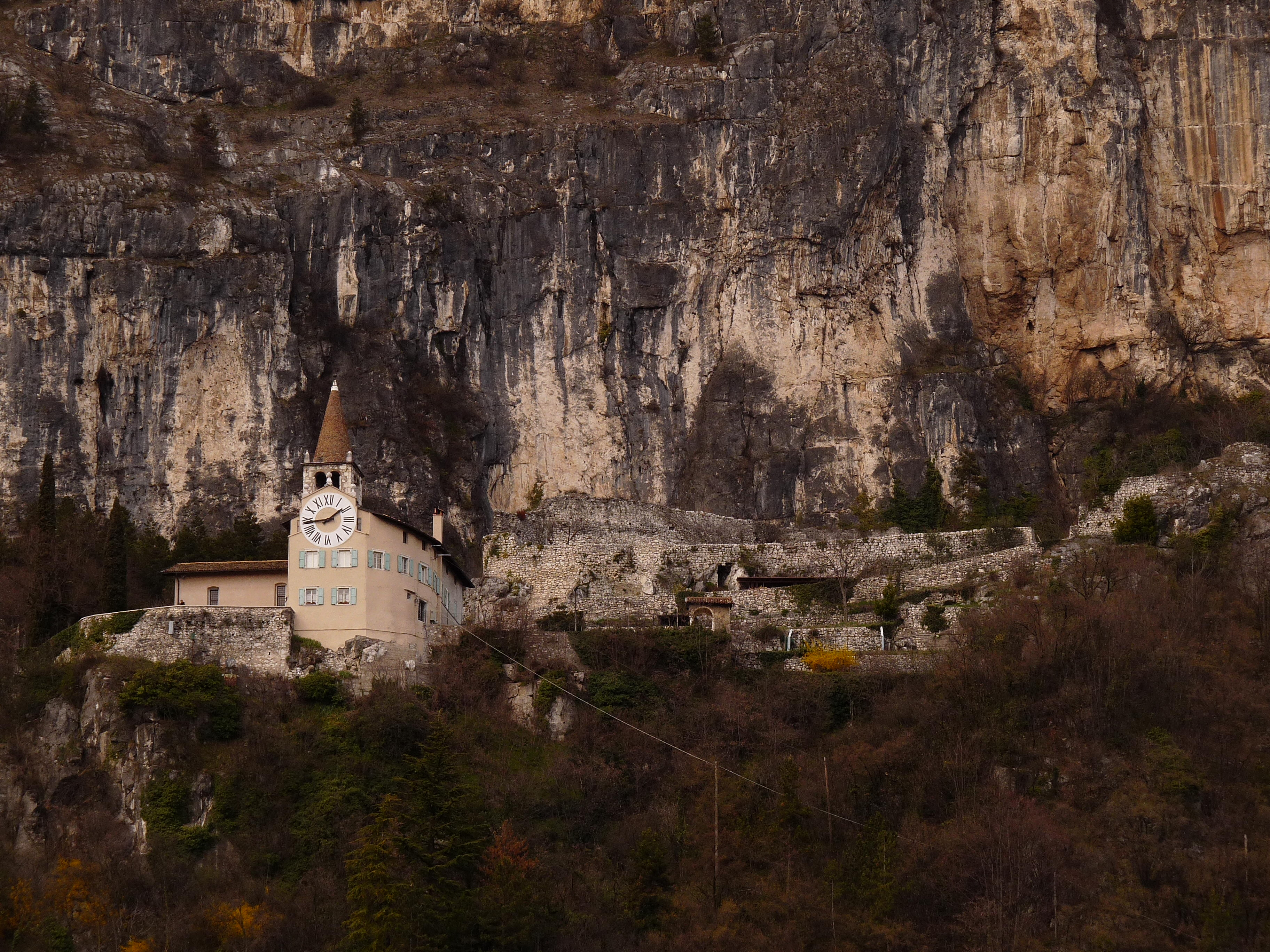 Mori (Italy): the sanctuary of Santa Maria di Monte Albano viewed from south.